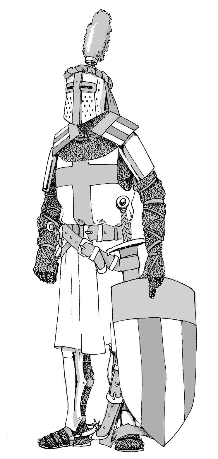 the image shows a knight from the 13th century